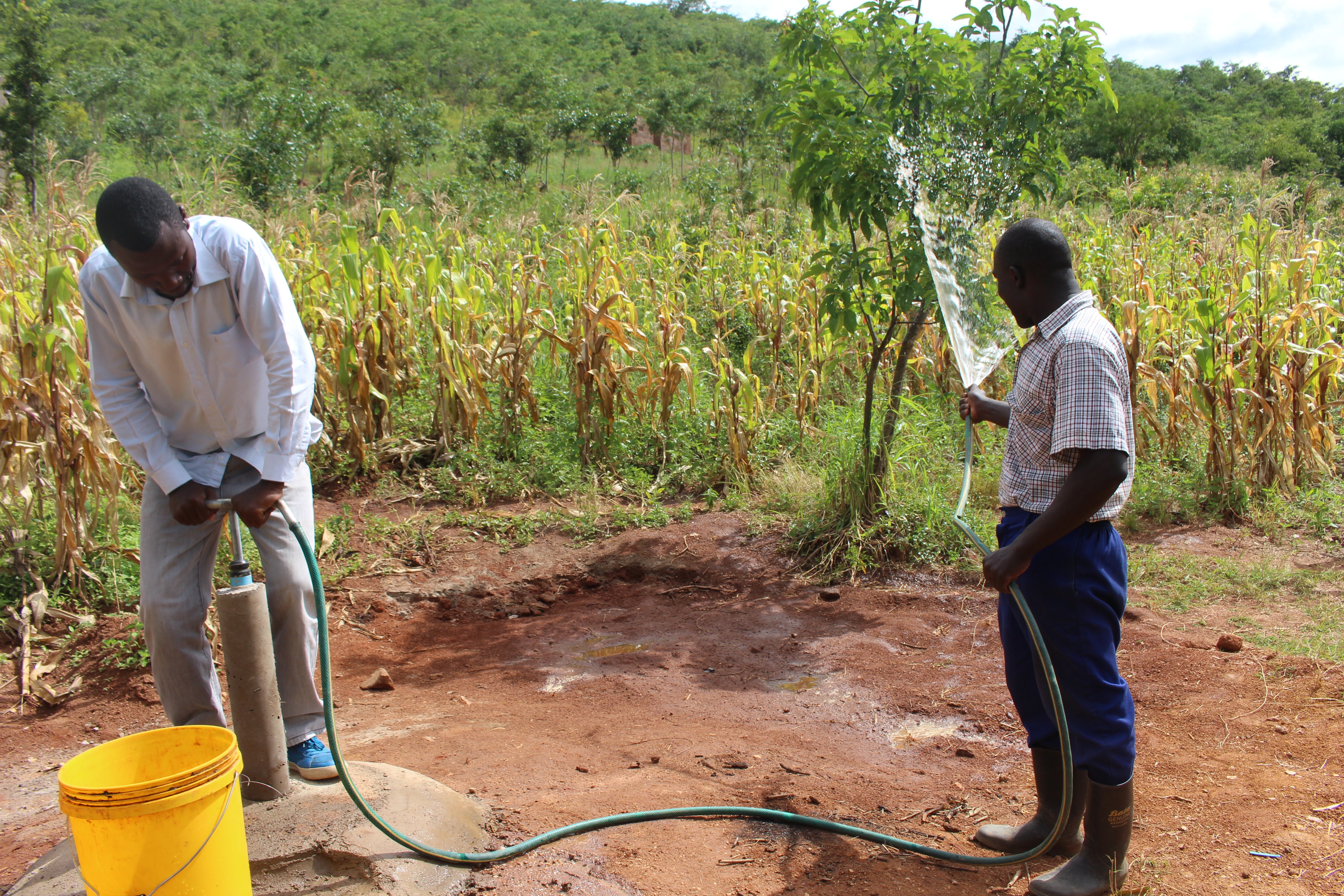 Emas pump Zambia